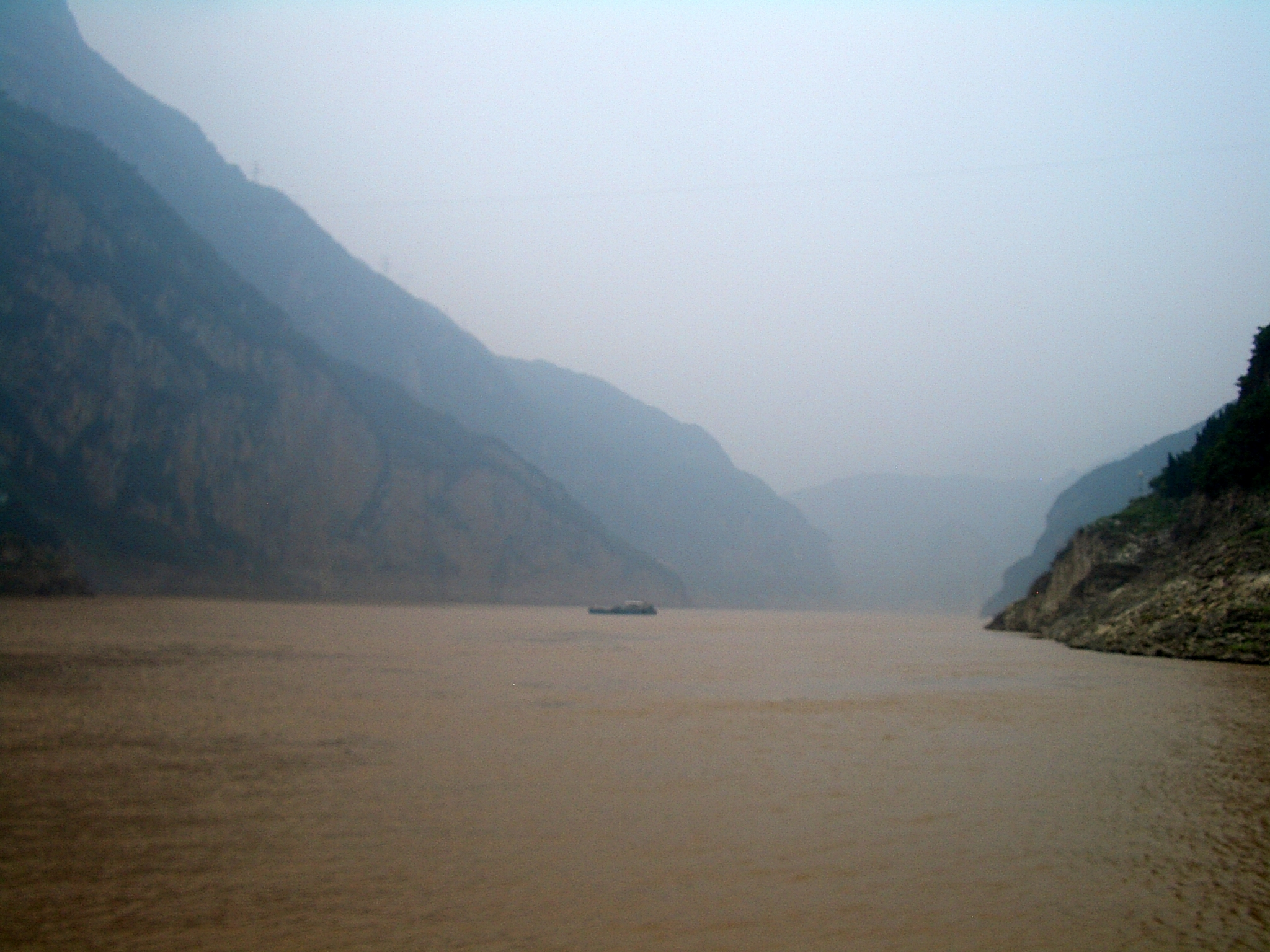 In the Xiling Gorge area of the Chang Jiang (Yangtze River). Zigui County, Hubei, between Qu Yuan Zhen and Maoping. In submersion from the rising Three Gorges Reservoir.